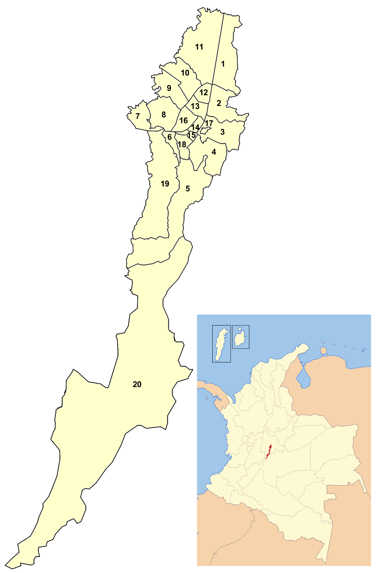 Image of Map of the Capital District of Bogota and localities